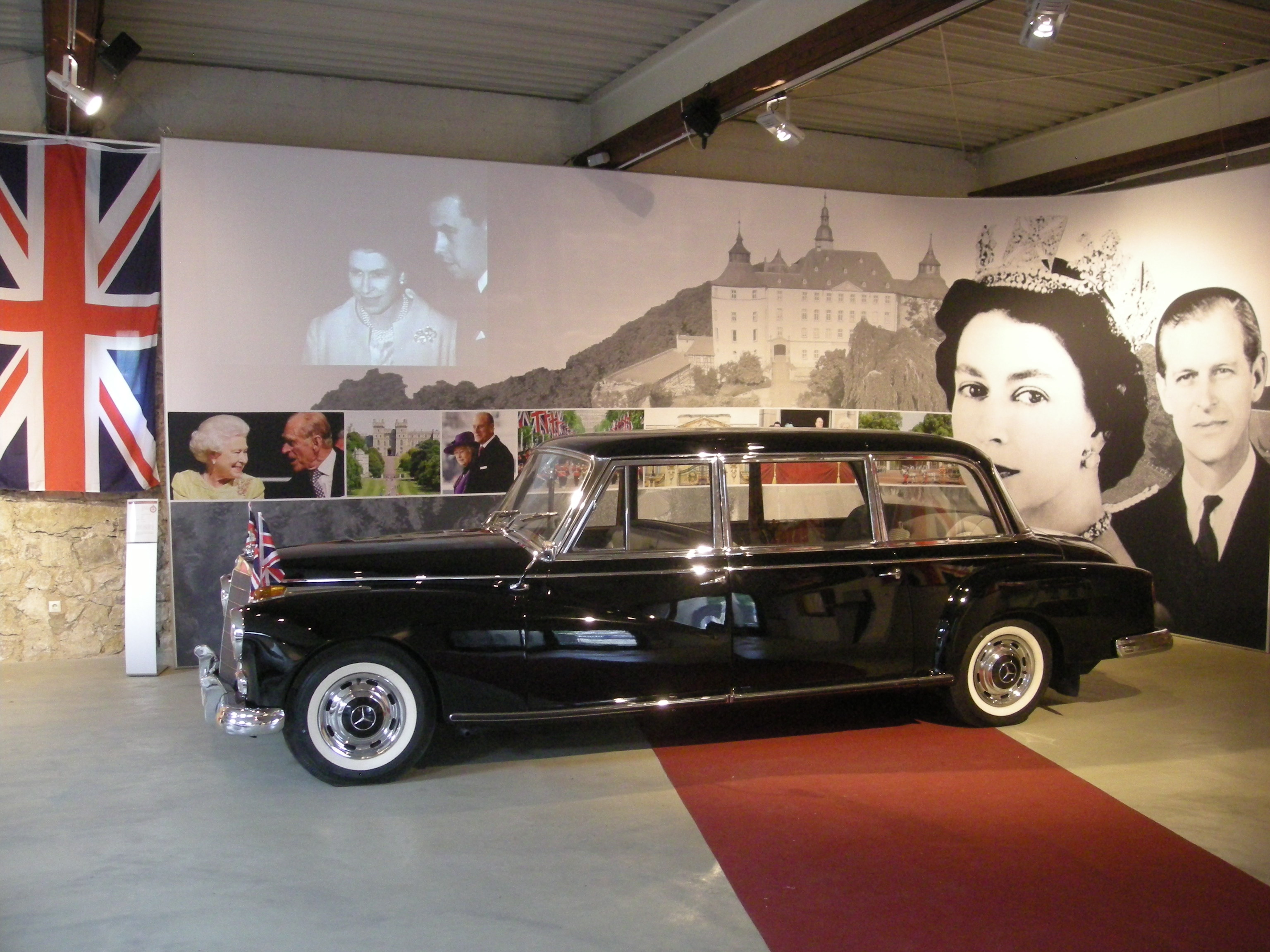 A 1960 Mercedes-Benz 300d Sonder inside the Deutsches Automuseum in Langenburg, Baden-Württemberg (Germany).